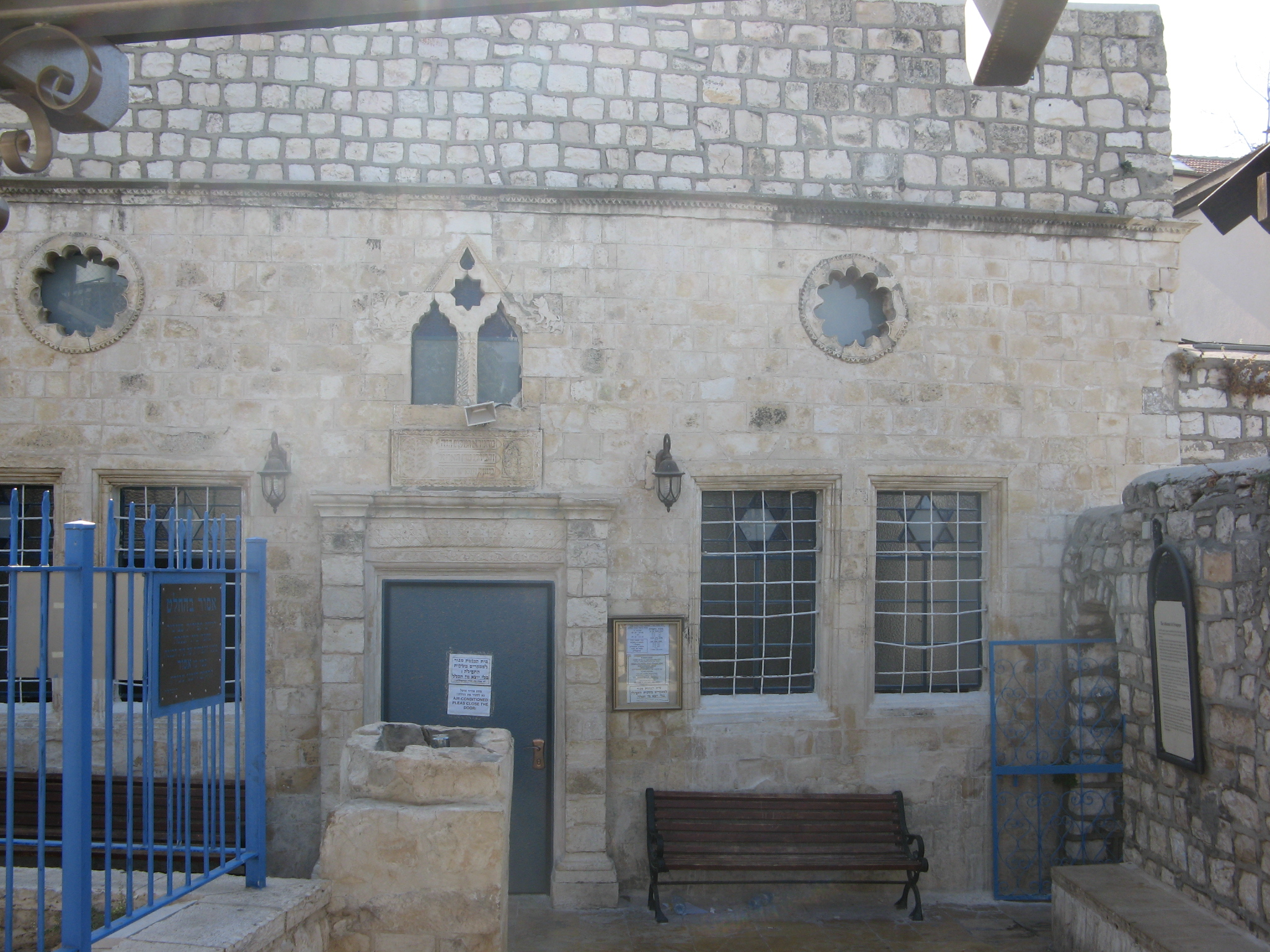 The Askenazi Ari Synagouge in Safed